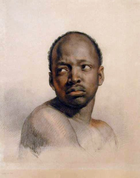 "Tête de noir", crayon on paper, 62,3 x 53 cm., Bruxelles, Musées royaux des Beaux-Arts de Belgique